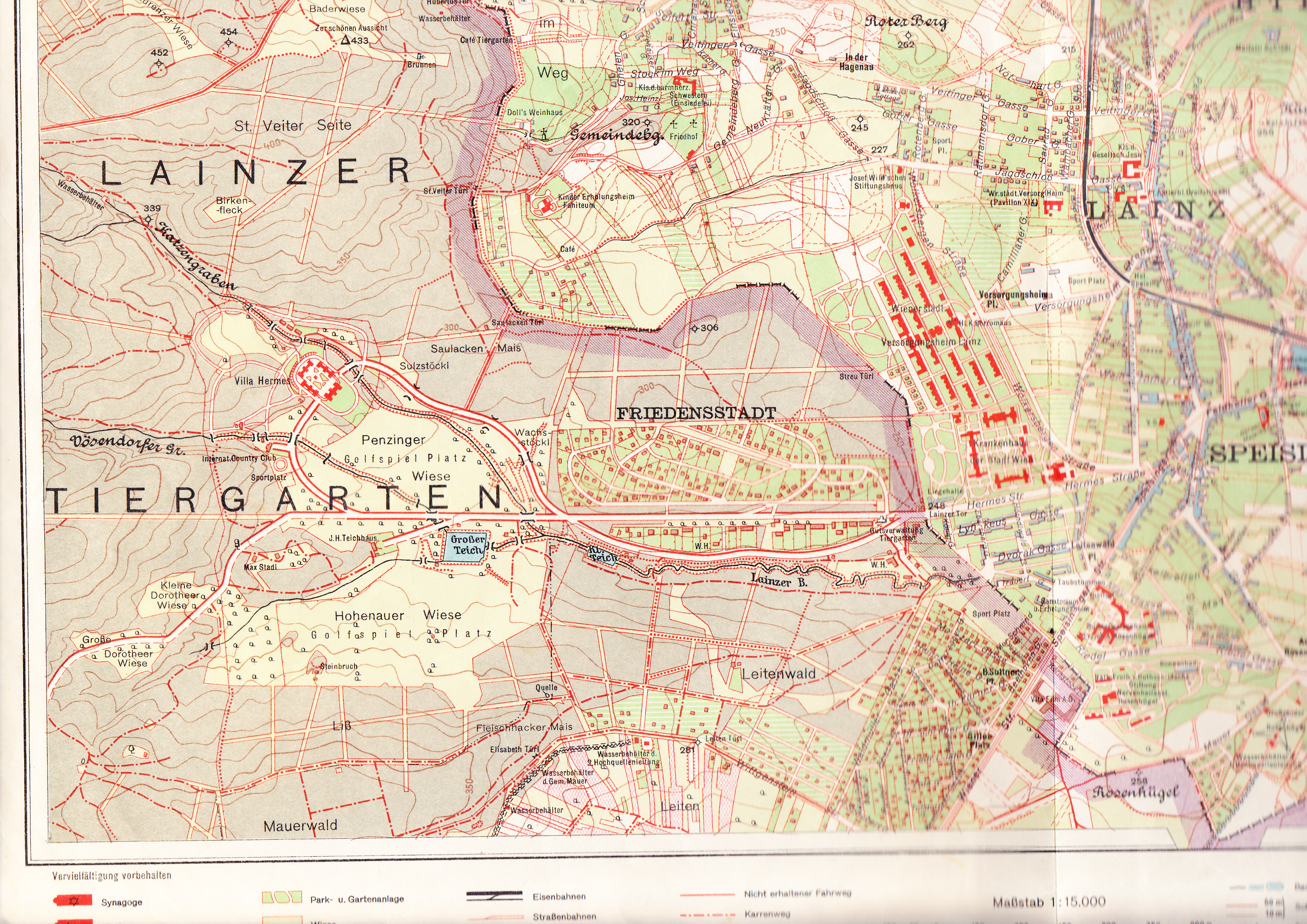 Part of an official city map of Vienna, showing new housing estates in today's 13th district, Hietzing, in the westernmost part of historical Lainzer Tiergarten (Lainz Deer Preserve), established after World War I, when the area belonged to a suburb of Vienna. Published by the government's cartographic institute.